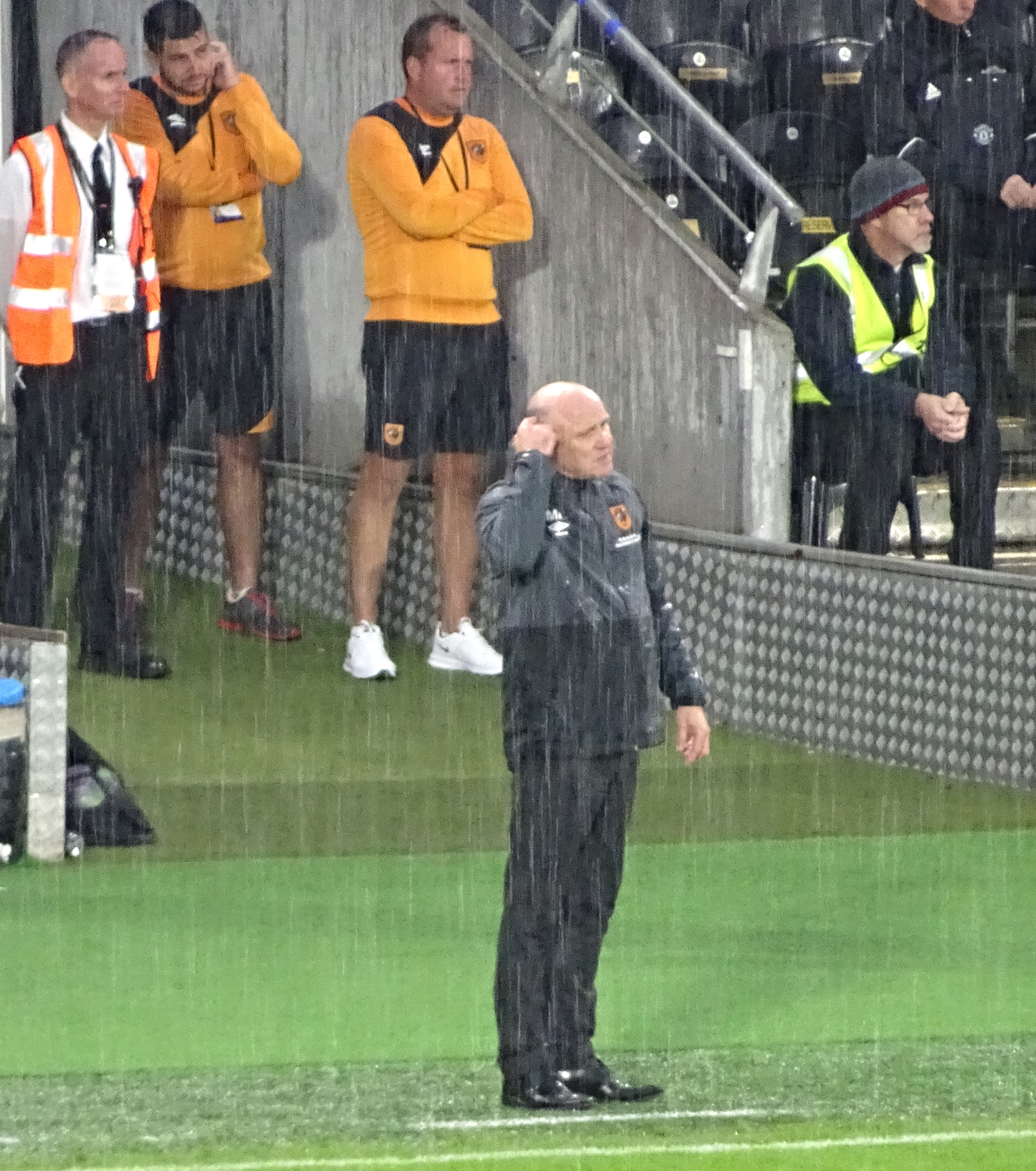 Mike Phelan - Hull City v Manchester United (0-1), 27 August 2016